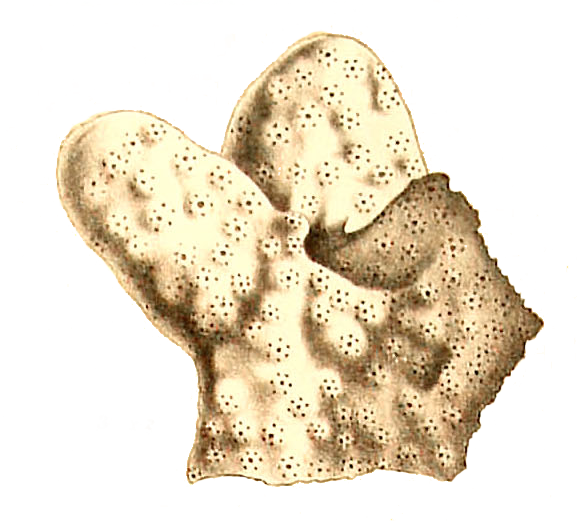 Original description : View of a portion of the coenosteum, magnified 2 diameters. Structures occurring in Millepora nodosa.